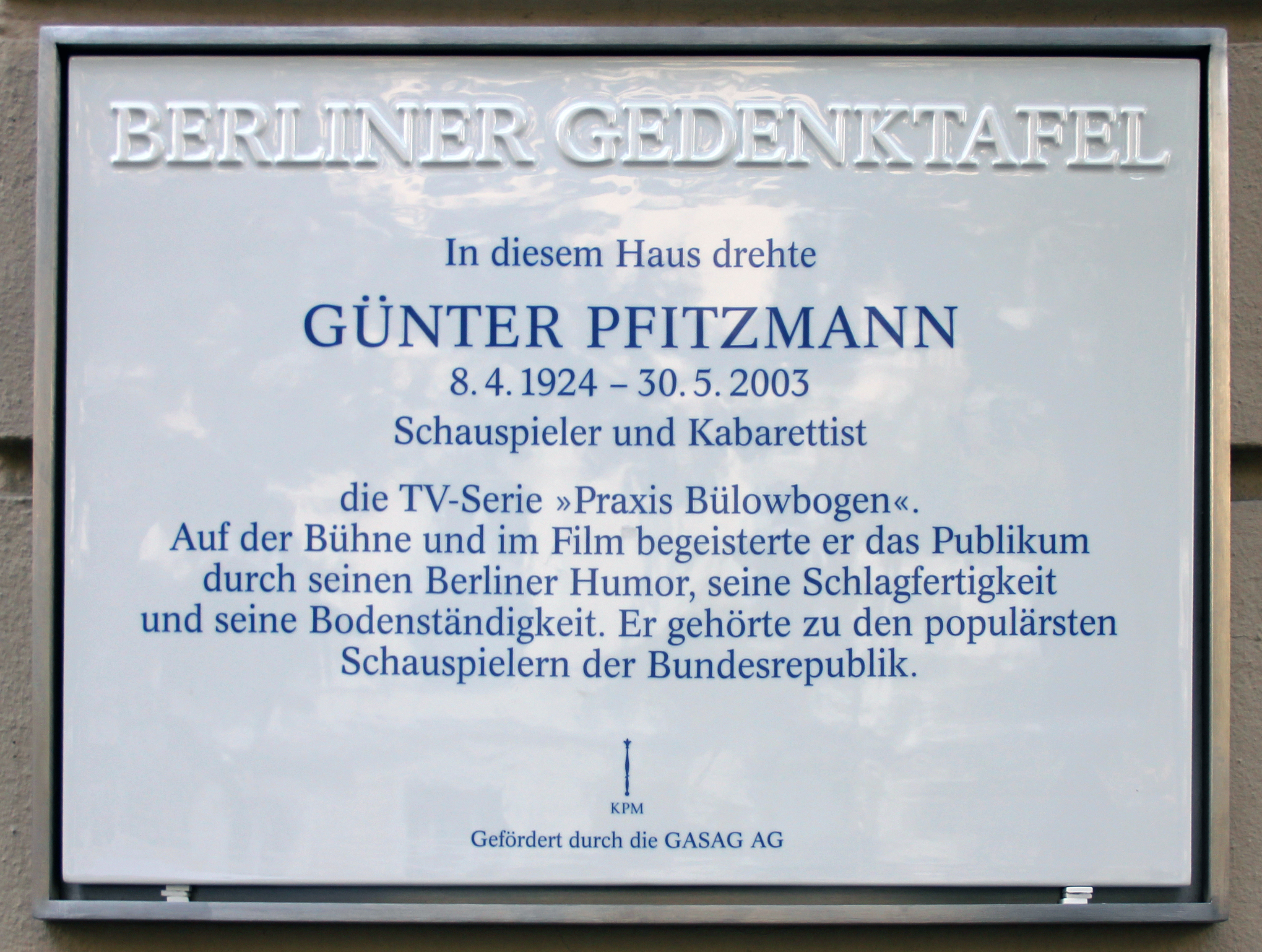 Berlin memorial plaque, Günter Pfitzmann, Zietenstraße 22, Berlin-Schöneberg, Germany